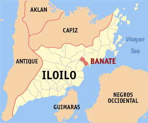 Map of Iloilo showing the location of Banate